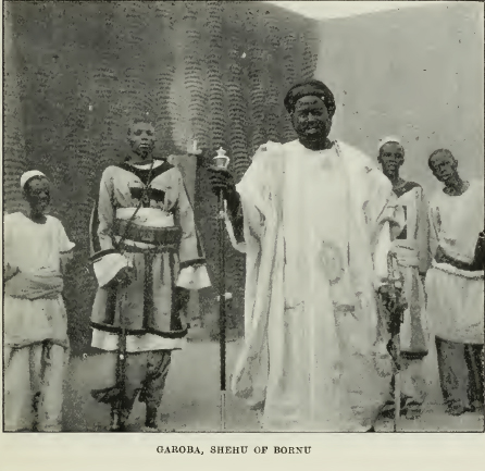 Shehu Abubakar Garbai of Borno in 1906 published in Boyd Alexander, From the Niger to the Nile, 1st edn (London: E. Arnold, 1907), p.289